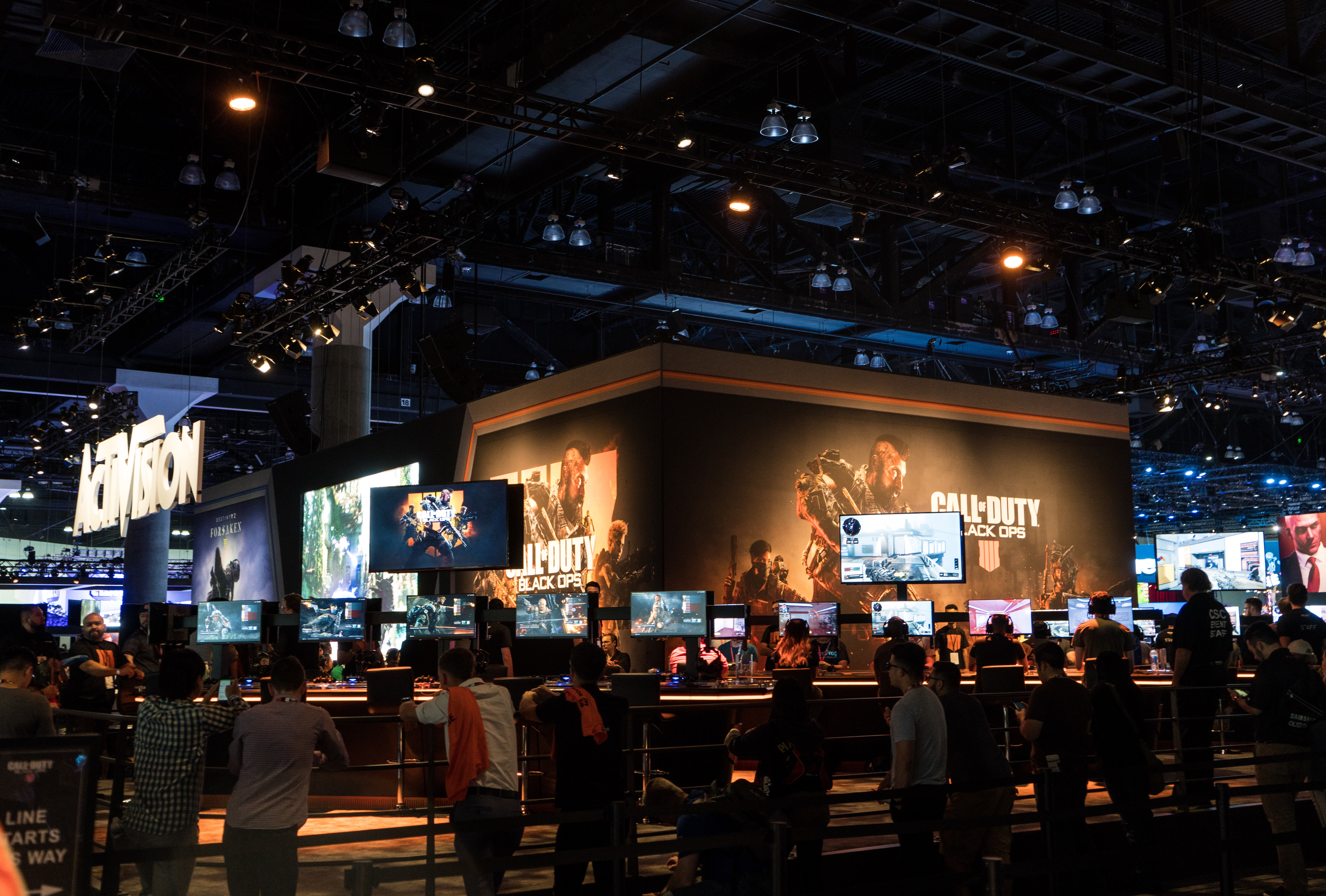 The exposition floor during the 2018 Electronic Entertainment Expo, June 12-14, 2018